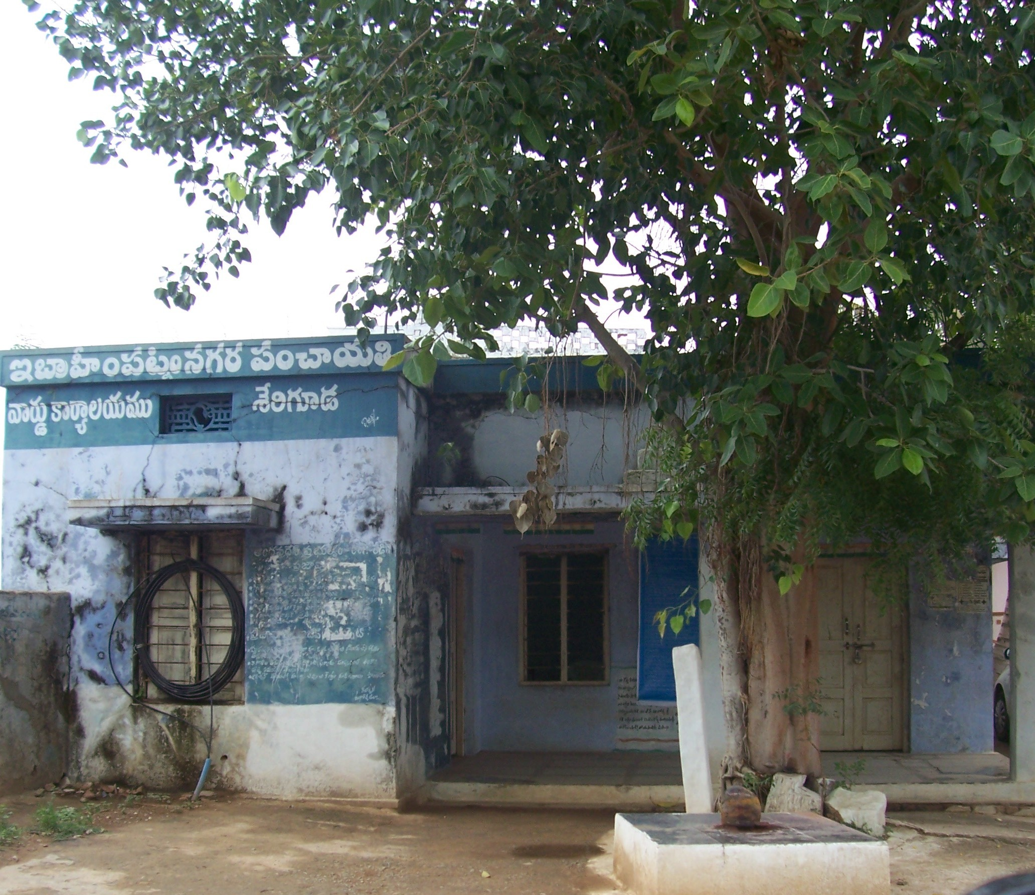 Seriguda ward offic